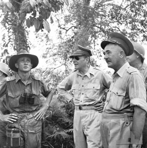 Labuan, North Borneo. 10 June 1945. Lieutenant Colonel Mervyn Jeanes, CO 2/43rd Infantry Battalion, General of the Army Douglas MacArthur, Supreme Commander South West Pacific Area, and Lieutenant General Sir Leslie Morshead, GOC I CORPS, inspecting positions held by the 2/43rd Infantry Battalion after their landing on the island.